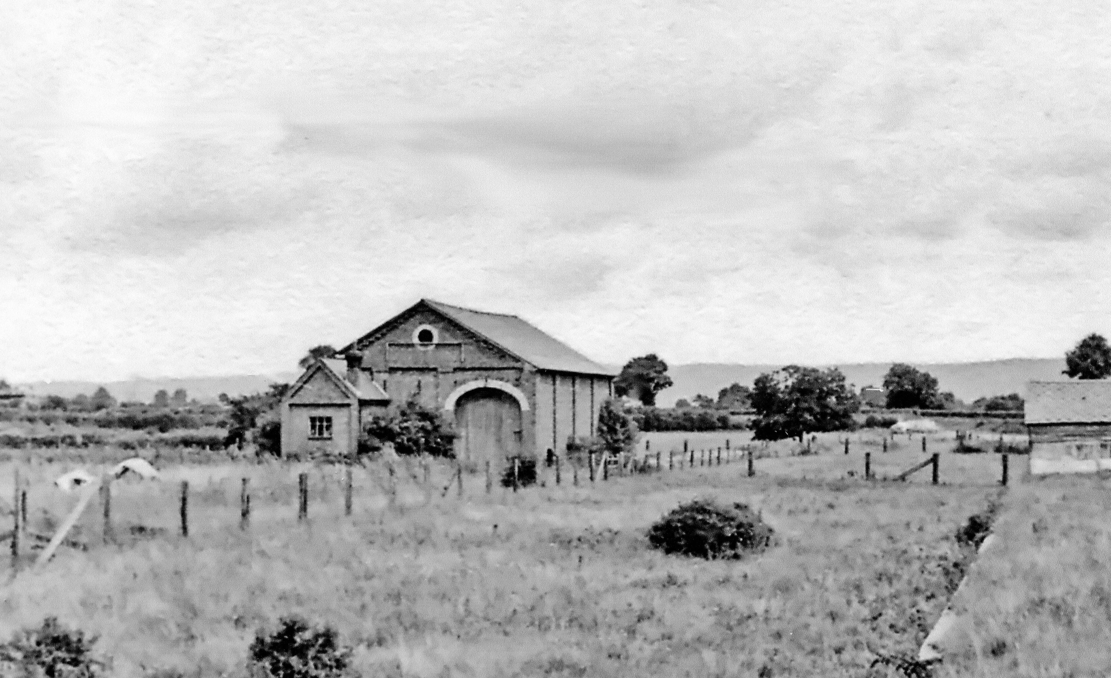 Remains of Bishop's Castle Station and Goods Yard. View approximately NE, towards Lydham North, from site of terminus of Bishop's Castle Railway, which had already been closed over 16 years before on 20/4/35. The survival of any remains of this strange, independent branch line from Craven Arms with its reversal at Lydham North, was remarkable. (Apologies for the rather inferior photograph - and for a little uncertainty of the precise location, as it is not on any map I have).